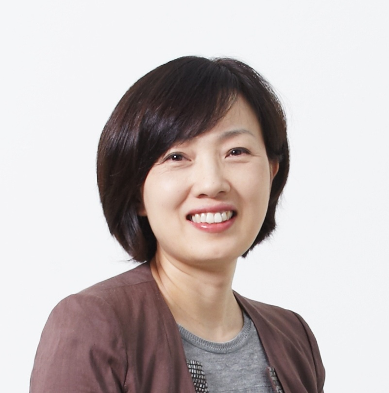 South Korean microbiologist V. Narry Kim